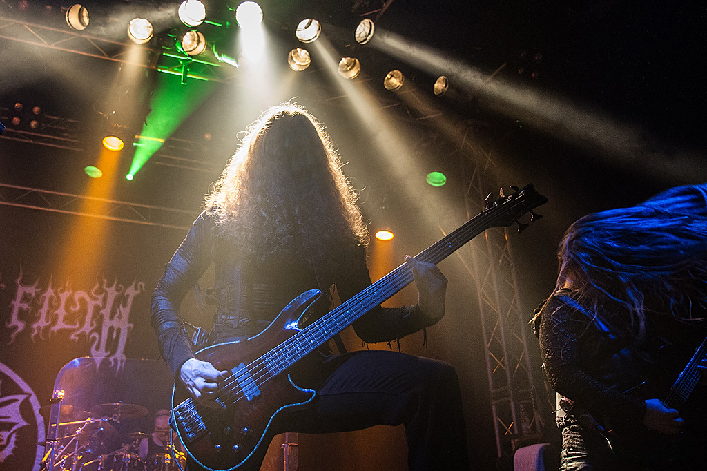 Cradle of Filth - 7.12.2012 - Music Hall, Geiselwind